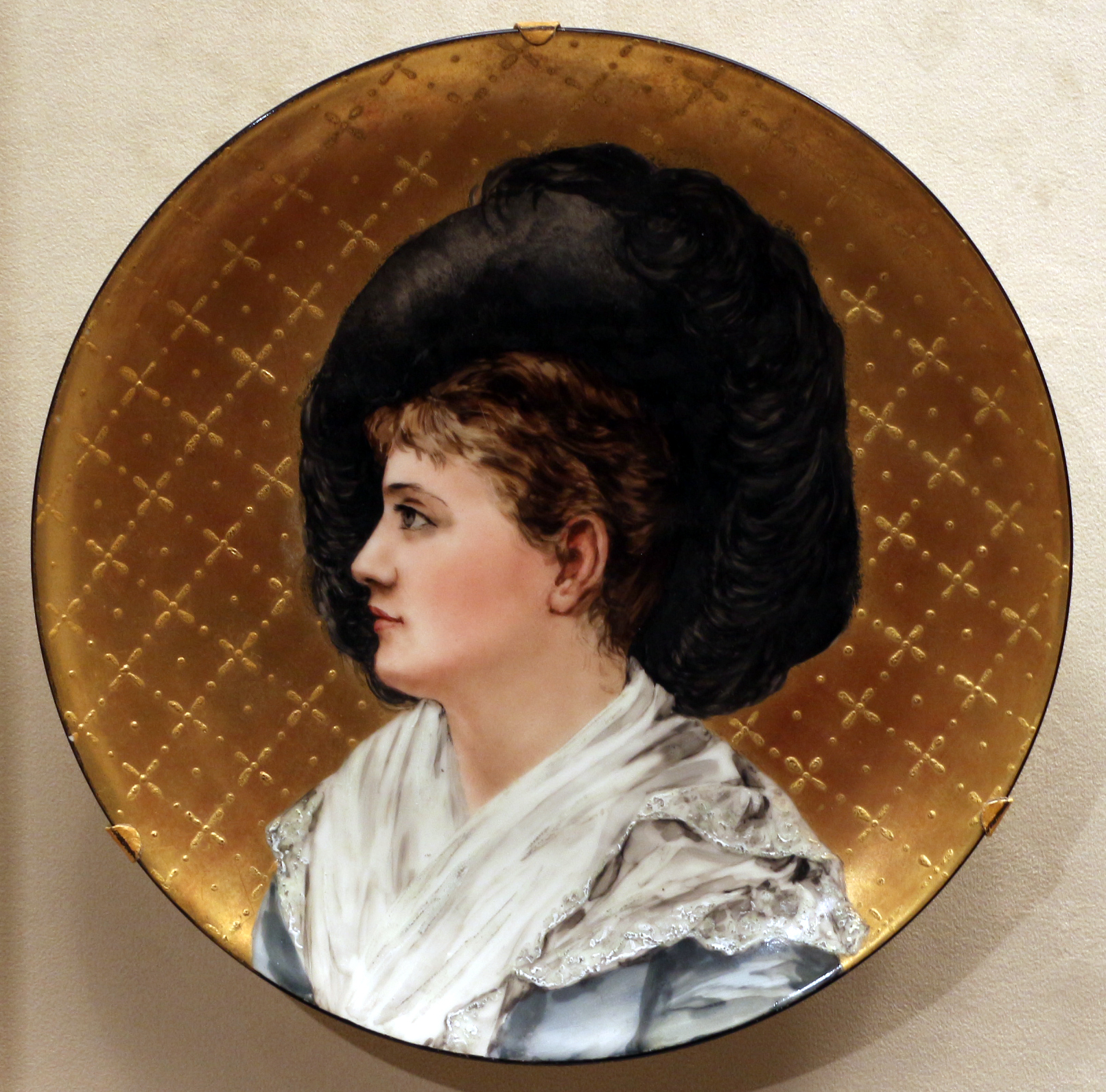 Ceramics in the Cincinnati Art Museum